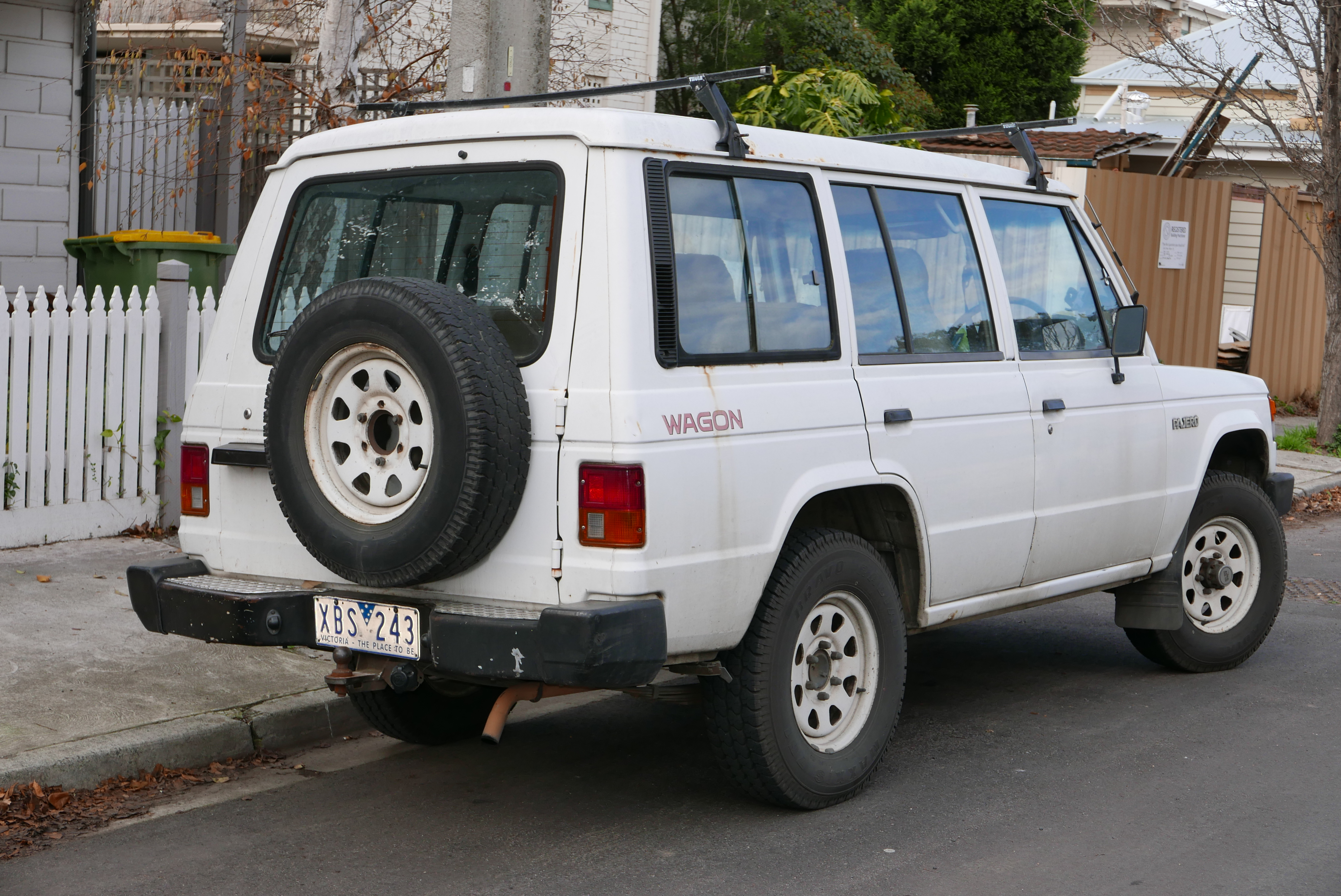 1986 Mitsubishi Pajero (NC) Commercial wagon. Photographed in Northcote, Victoria, Australia. Vehicle registration enquiry results Jurisdiction Victoria Registration XBS243 Chassis code NC3V45SL22000230 Engine code 4G54GH2117 Compliance date 1986-06 Year of manufacture 1986